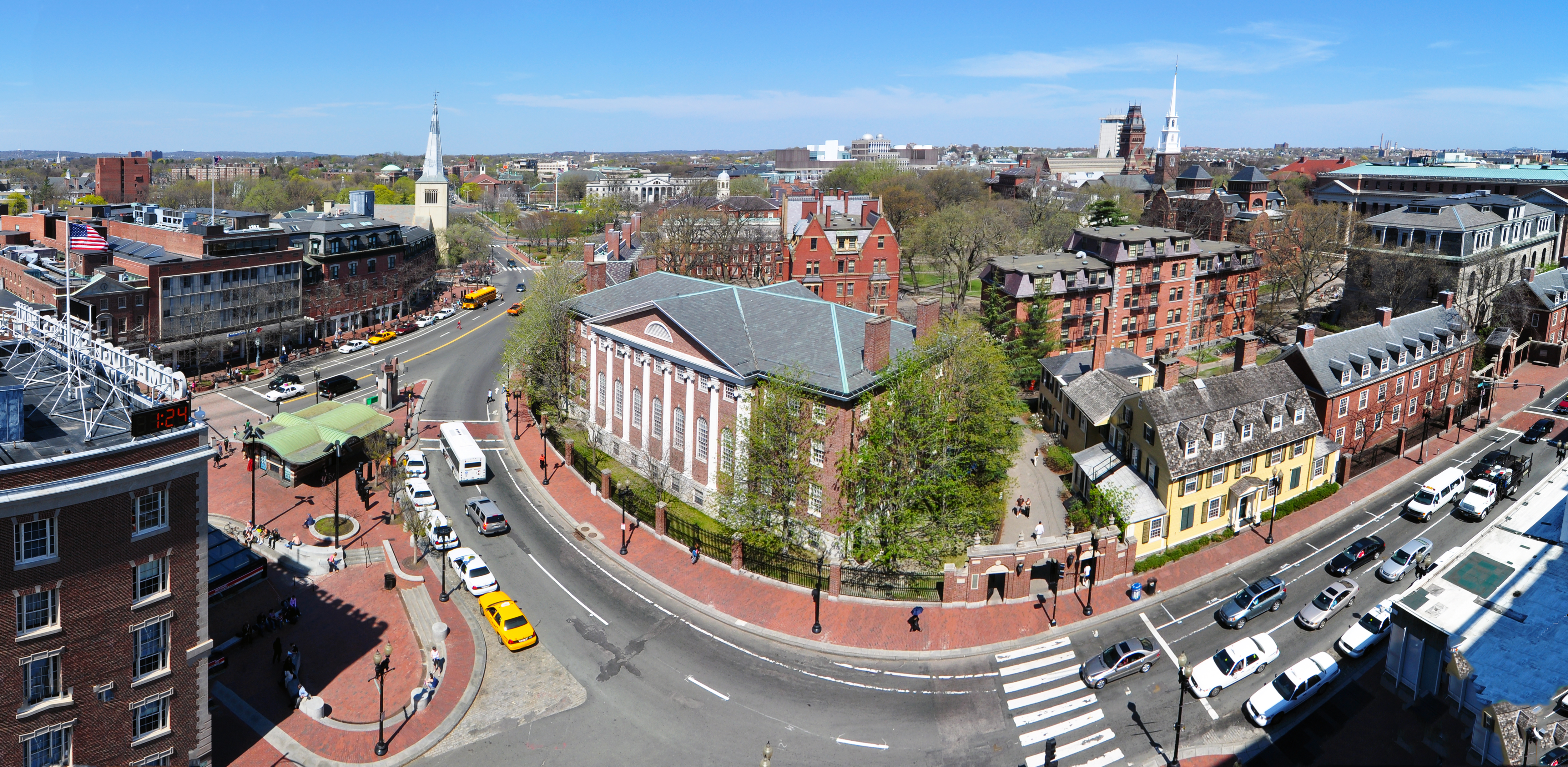 Harvard Square seen from a nearby building